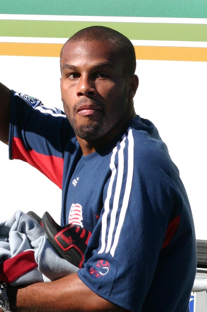 Photos taken at MLS Cup 2006. The Houston Dynamo defeated the New England Revolution 4-3 on penalties after the two teams drew 1-1 at the end of extra time. 11/12/2006 Pizza Hut Park, Frisco, Texas.